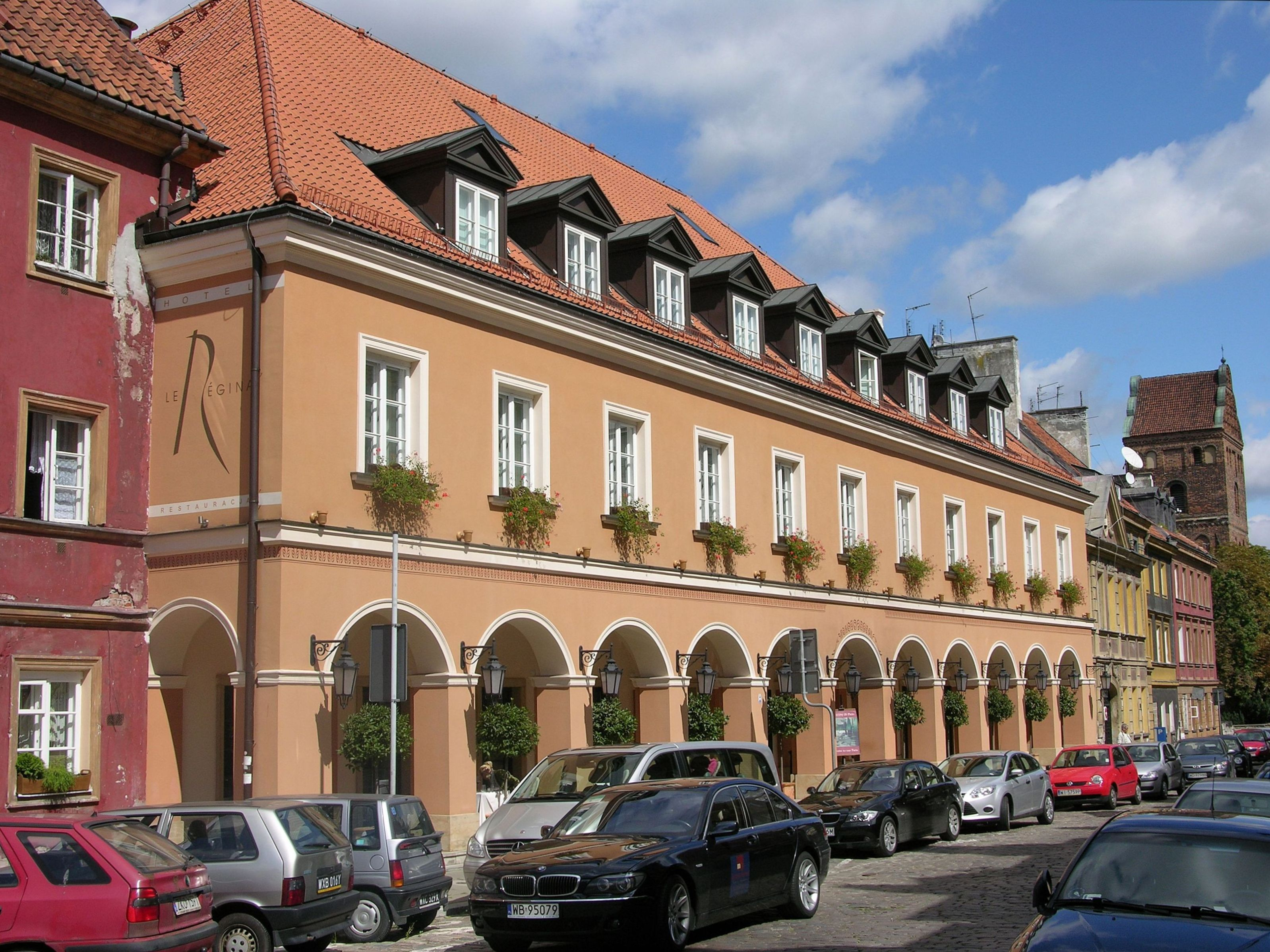 Kościelna Street in Warsaw